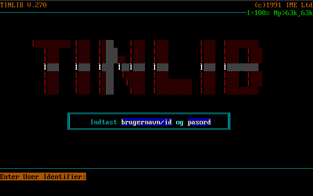 Log on screen to Tinlib v. 270 in danish